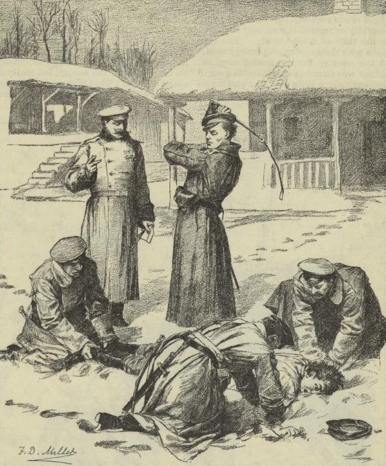 Francis Davis Millet: Fifty lashes